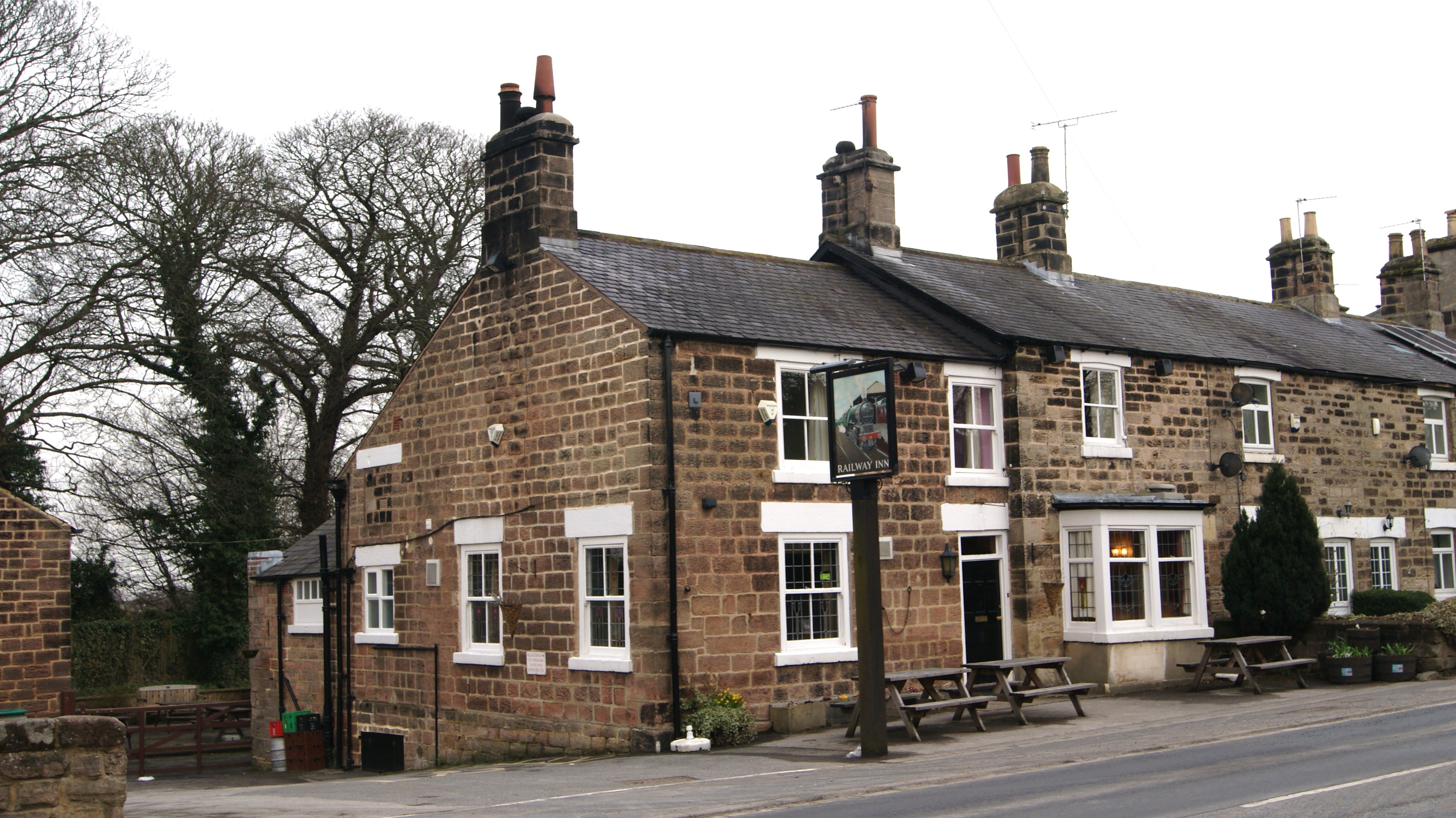 Railway Inn, Park Road, Spofforth, North Yorkshire. Taken on the afternoon of Tuesday the 19th of March 2013.